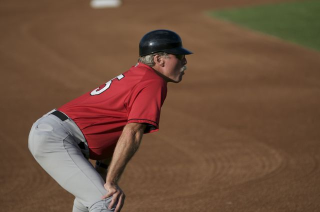 Steve Dillard.